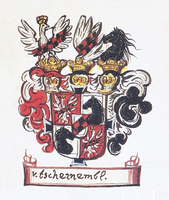 Coat of Arms of Baron Tschernembl, Commander of the Teutonic Knights in Ljubljana, 1659